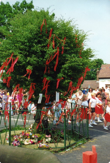 Appleton Thorn (Bawming the Thorn) The thorn tree at Appleton Thorn, Warrington. The hawthorn at Appleton is supposedly a descendant of the Holy Thorn at Glastonbury, which was itself said to have sprung from the staff of Joseph of Arimathea. Local children celebrate with a festival each June (a modern invention).